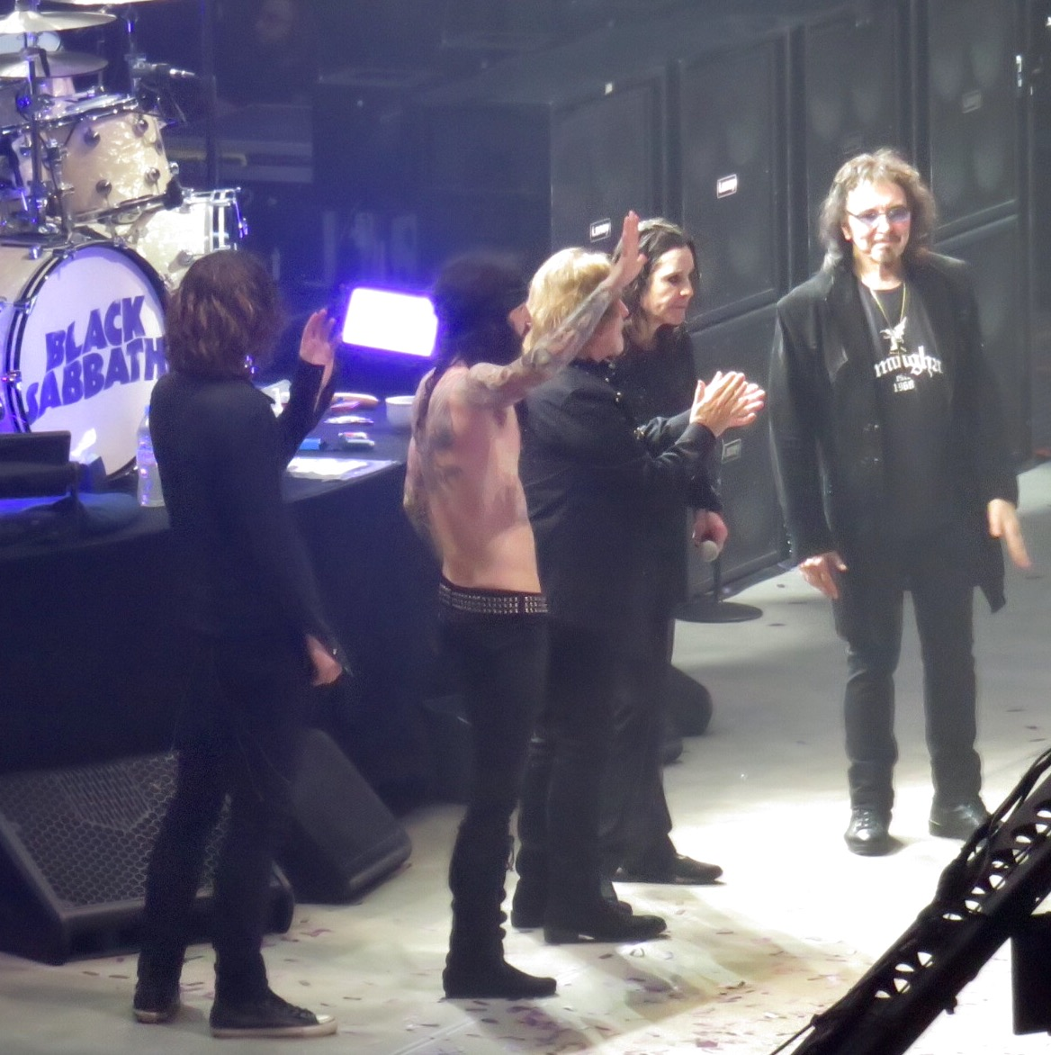 Black Sabbath about to leave the stage at the end of their last performance of their farewell tour, The End Tour, at the Genting Arena, Birmingham.